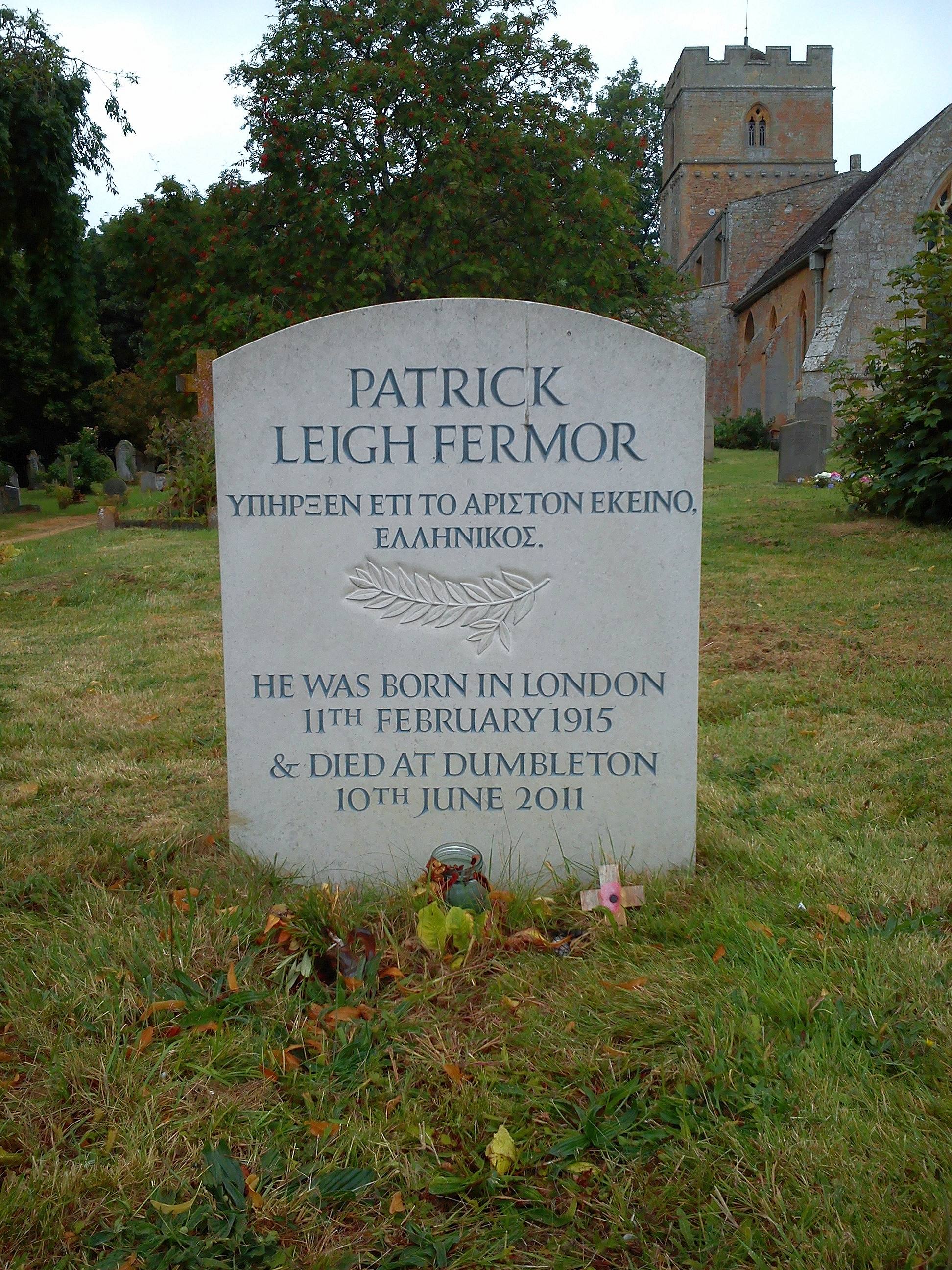 St Peter's church, Dumbleton, churchyard: Grave of Sir Patrick Leigh Fermor